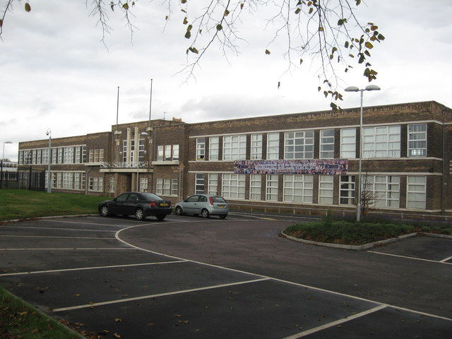 North Doncaster Technology College, Adwick Le Street The college was re-named the Outwood Grange Academy on 7 September 2009